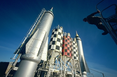 One Czech concrete mixer plant. Photo ba Jiri Tondl